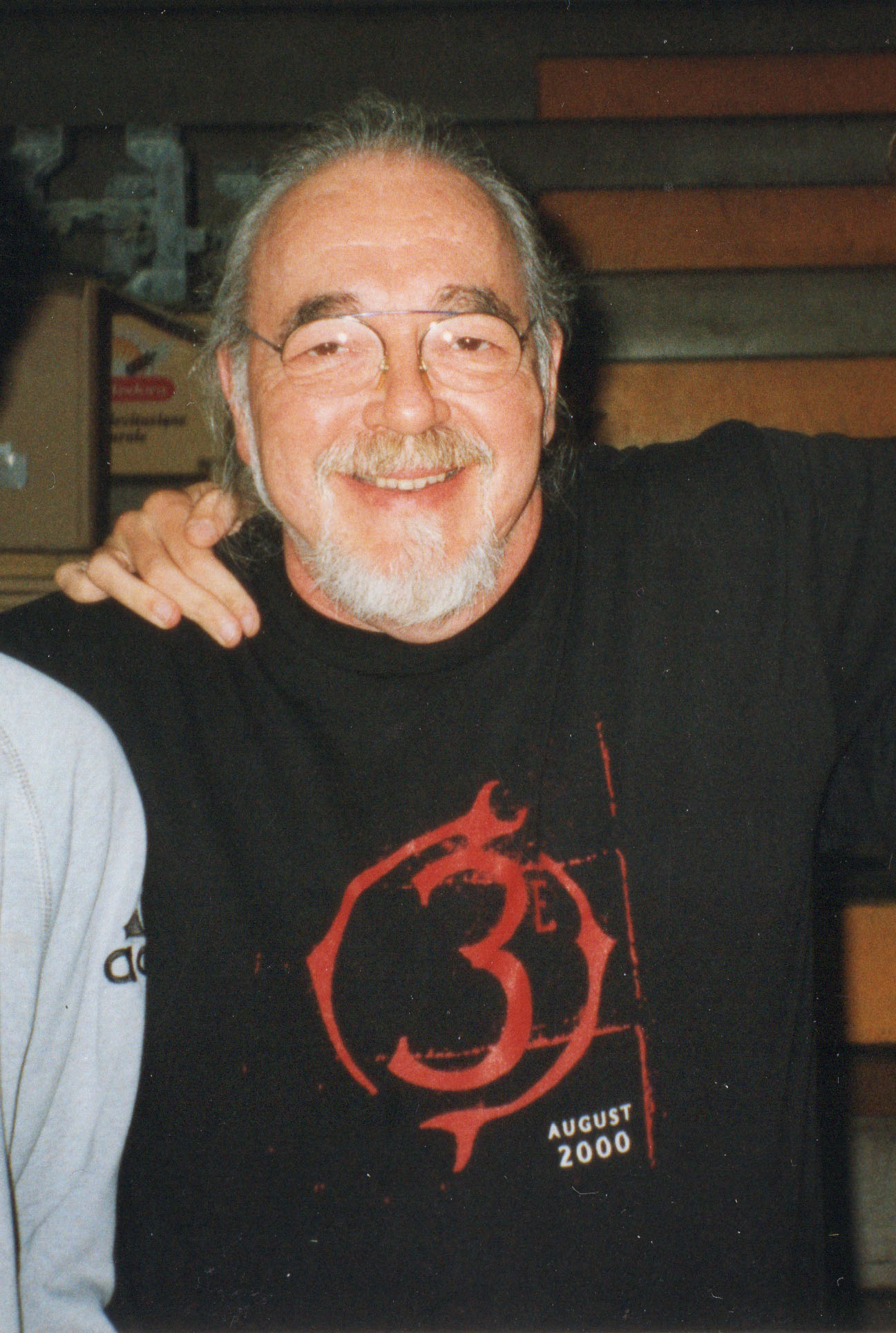 Game author Gary Gygax, creator, with Dave Arneson, of Dungeons and Dragons at ModCon Game Fair in 1999, Modena, Italy. He wear a t-shirt to advertise the 3.0 edition of D&D, announced for the following year